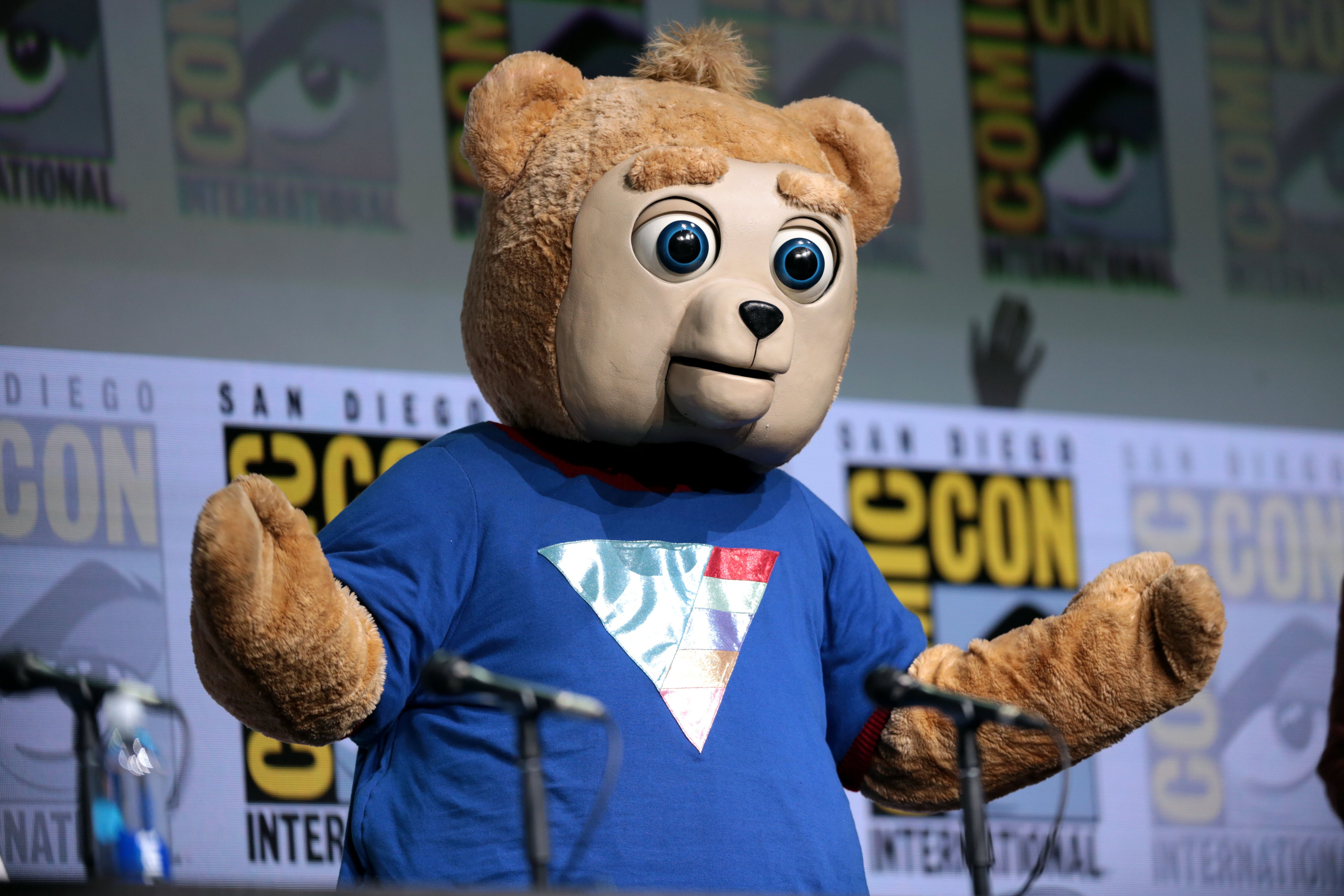 Brigsby Bear speaking at the 2017 San Diego Comic-Con International in San Diego, California.